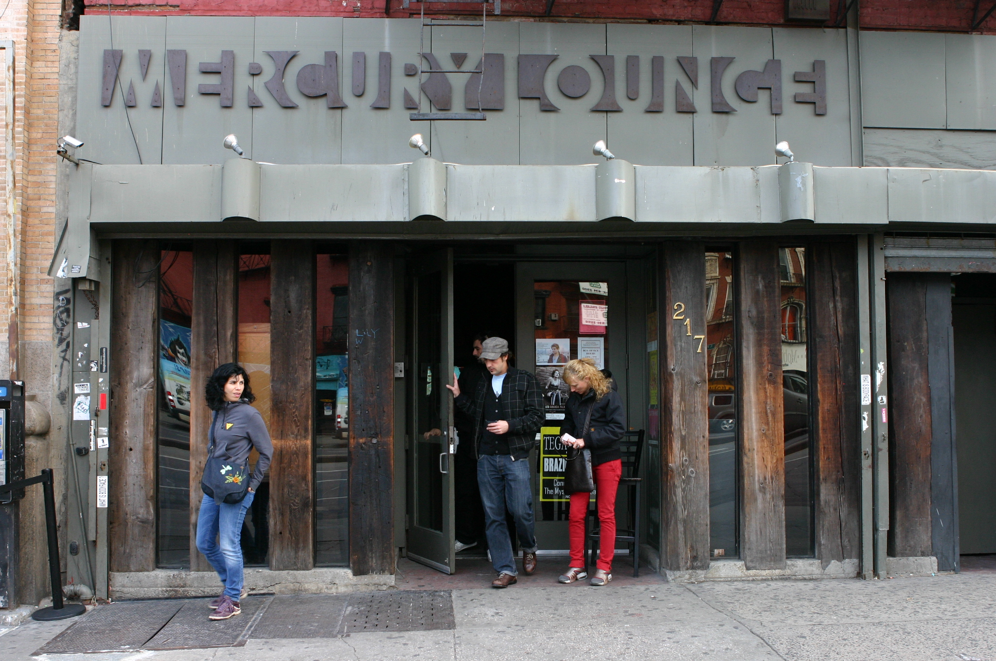 This photo is of Wikis Take Manhattan goal code F15, Mercury Lounge.